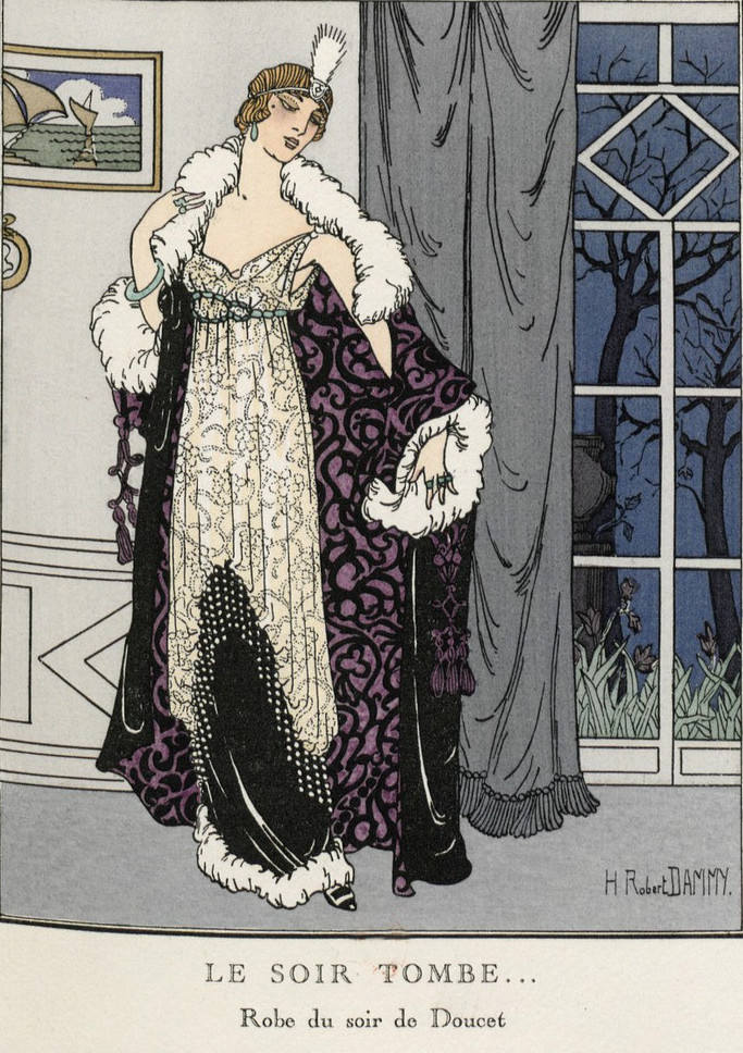 Fashion plate illustrating a dress by Jacques Doucet Title: "Le Soir Tombe"